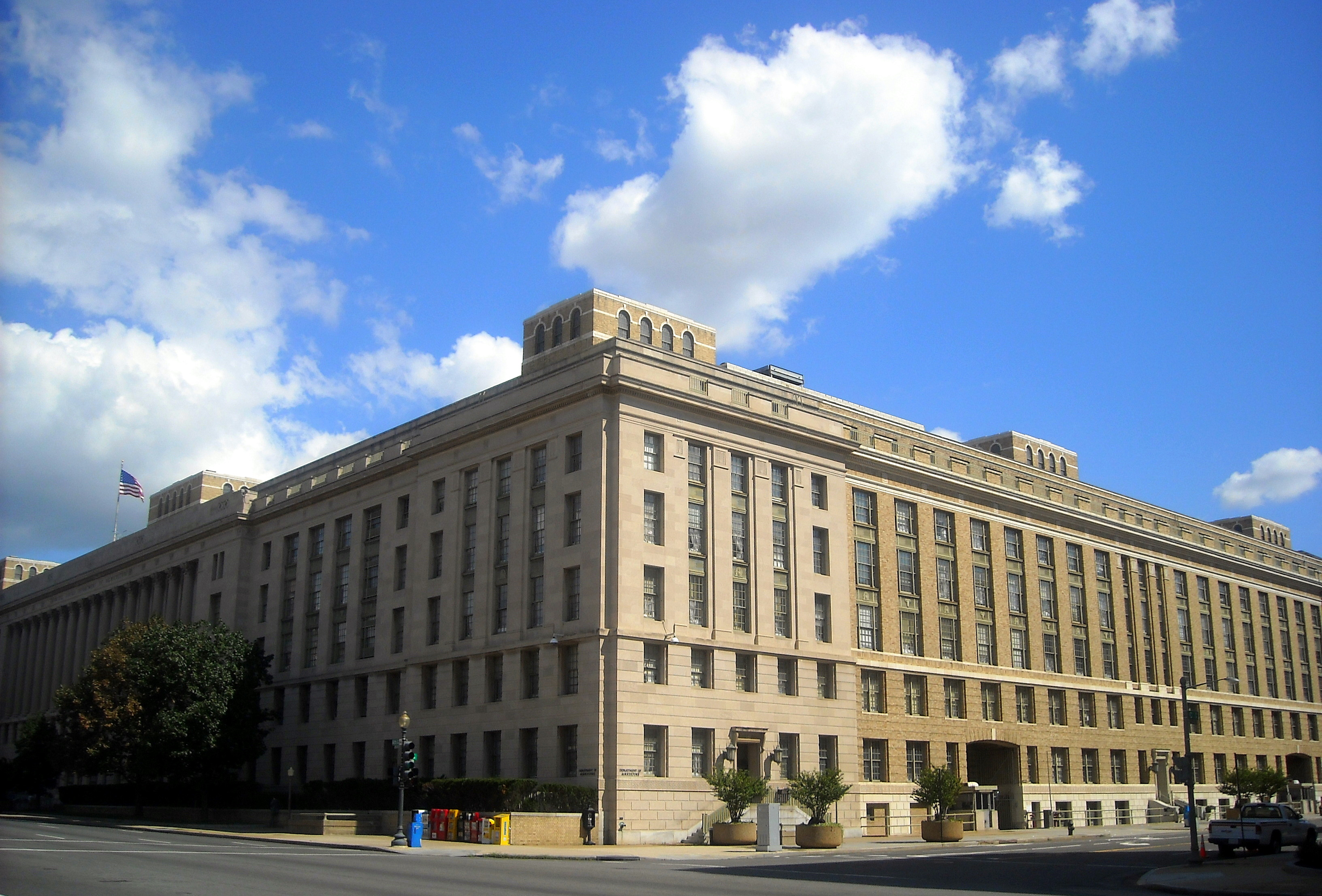 The U.S. Department of Agriculture South Building located at 14th Street and Independence Avenue, S.W., in Washington, D.C.